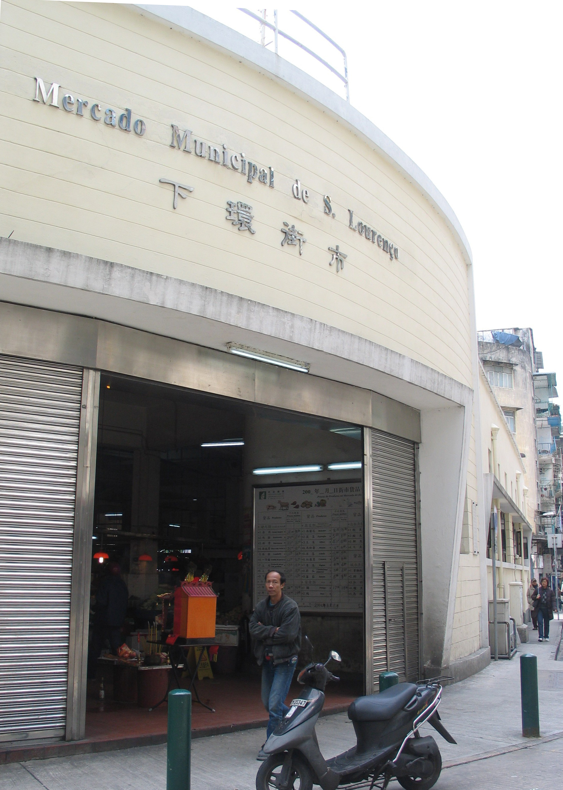 Mercado Municipal de S. Lourenço de Macau Macao Municipal Market of St. Lawrence 澳門下環街市 Source: taken by Glio, using Canon Powershot G5